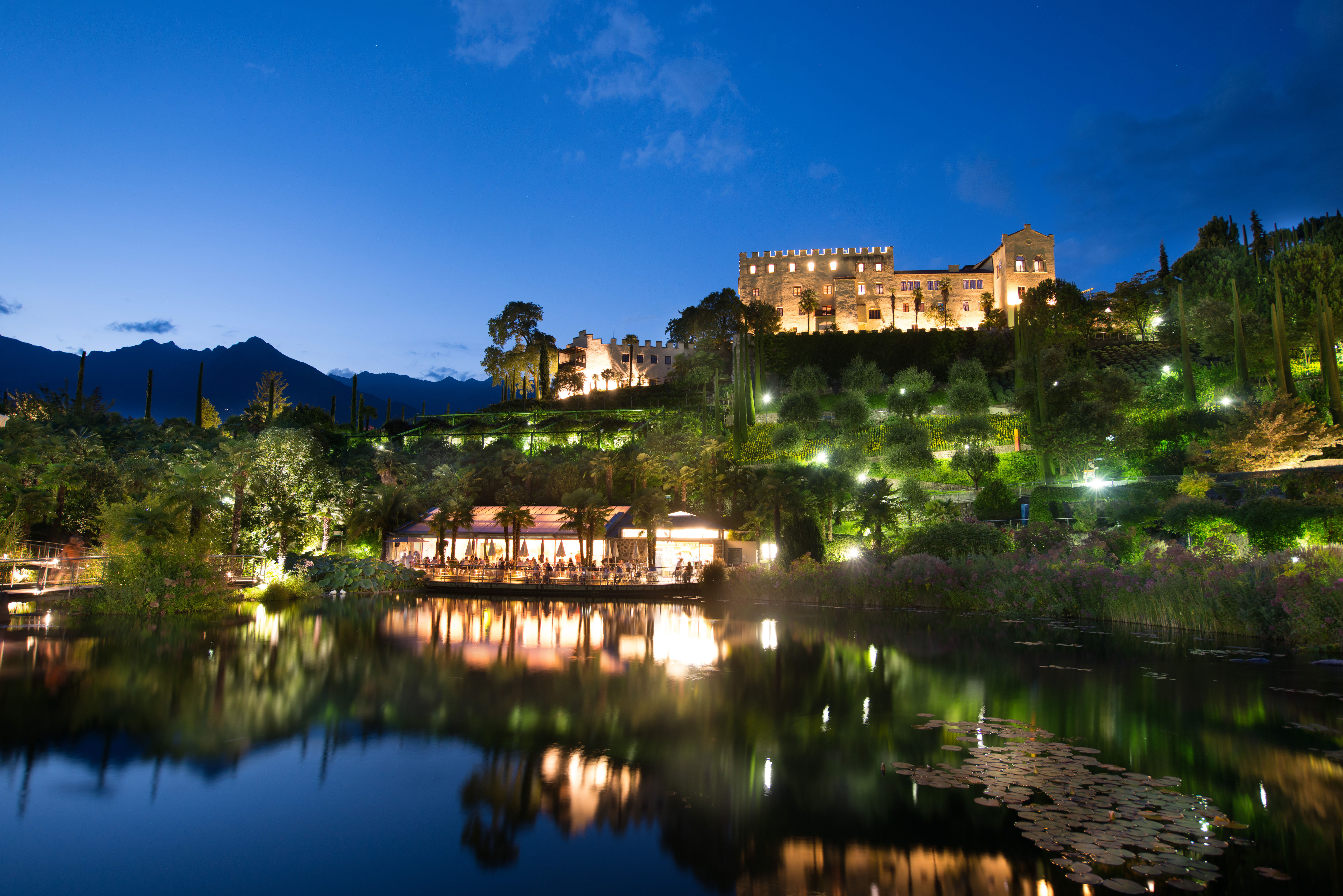 Trauttmansdorff after hours